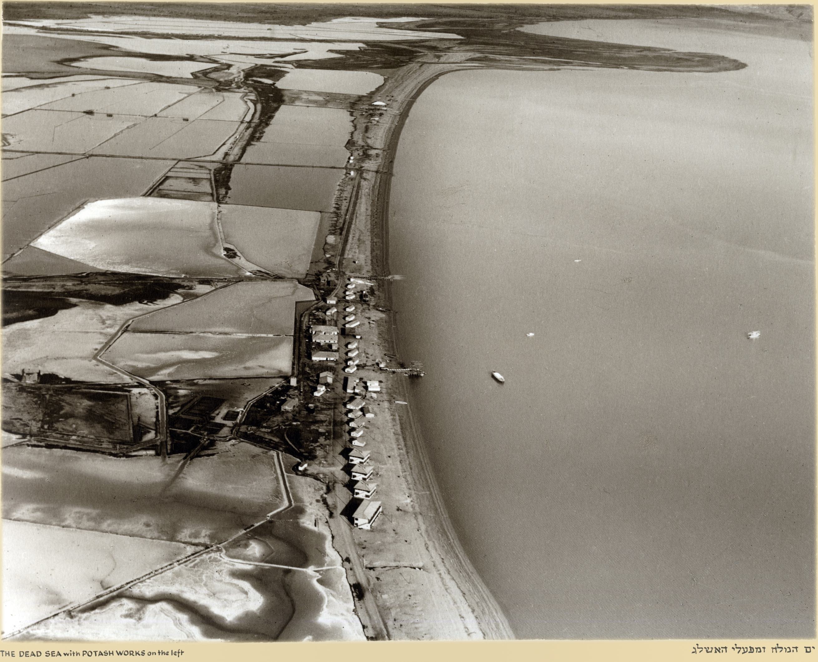 Z. Kluger. Erez Israel from the air - 1937-38